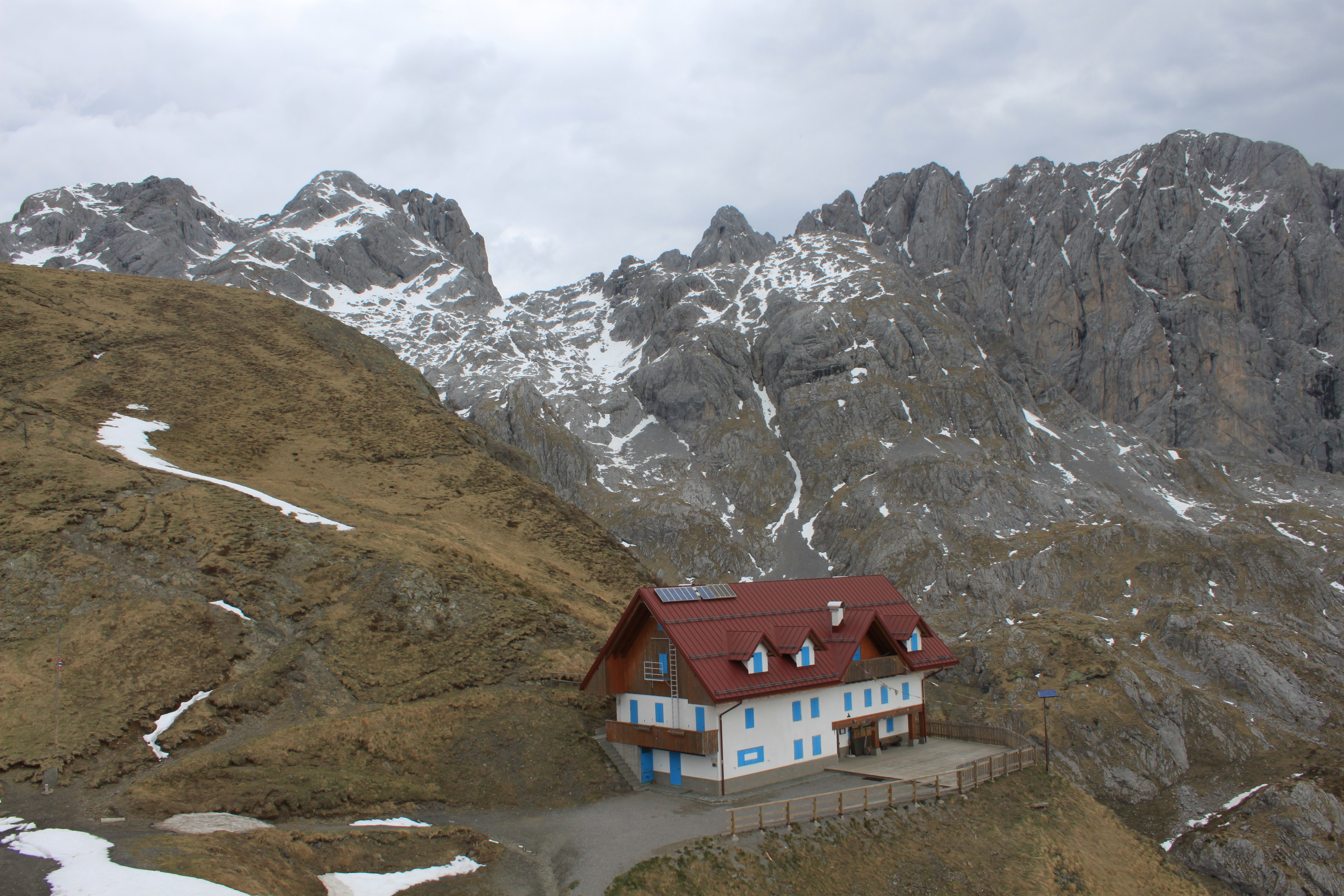 Alpine hut Rifugio Marinelli in Carnic Alps with M. Coglians (Hohe warte) and Creta della Chianevate (Kellerspitzen) in the background, Italy.